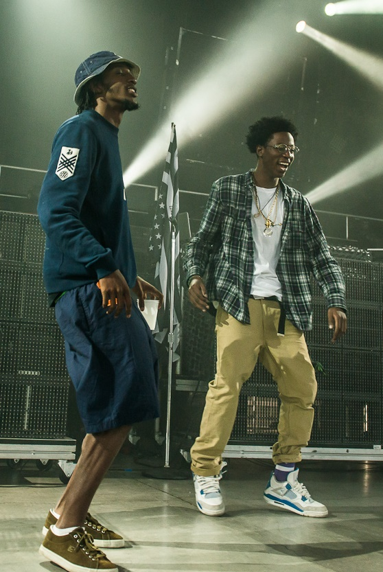 Joey Badass and CJ Fly of Pro Era at The Come Up Show's 2013 Under the Influence Tour in Toronto